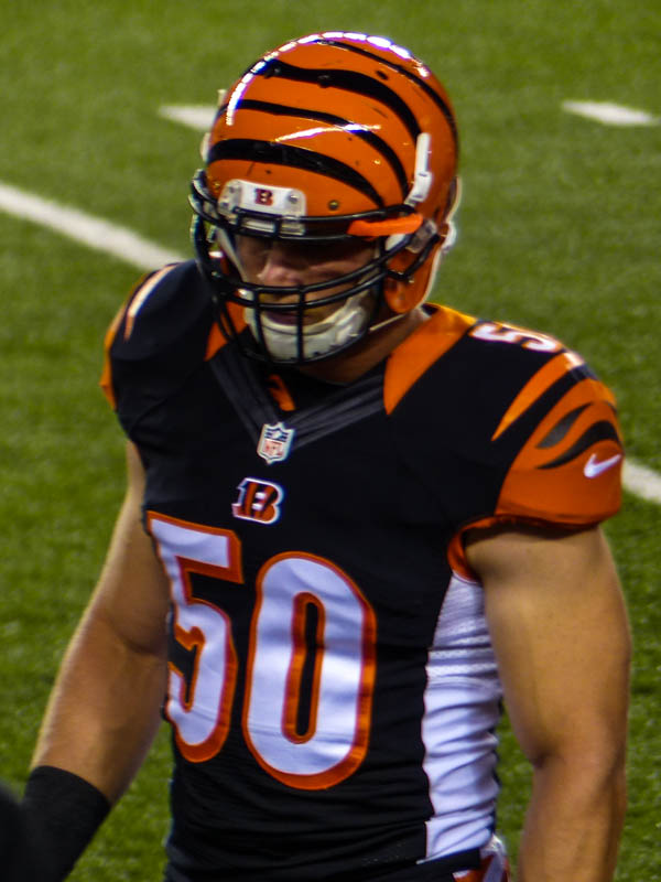 Warming up before Monday Night Football game vs the Pittsburgh Steelers, September 17, 2013